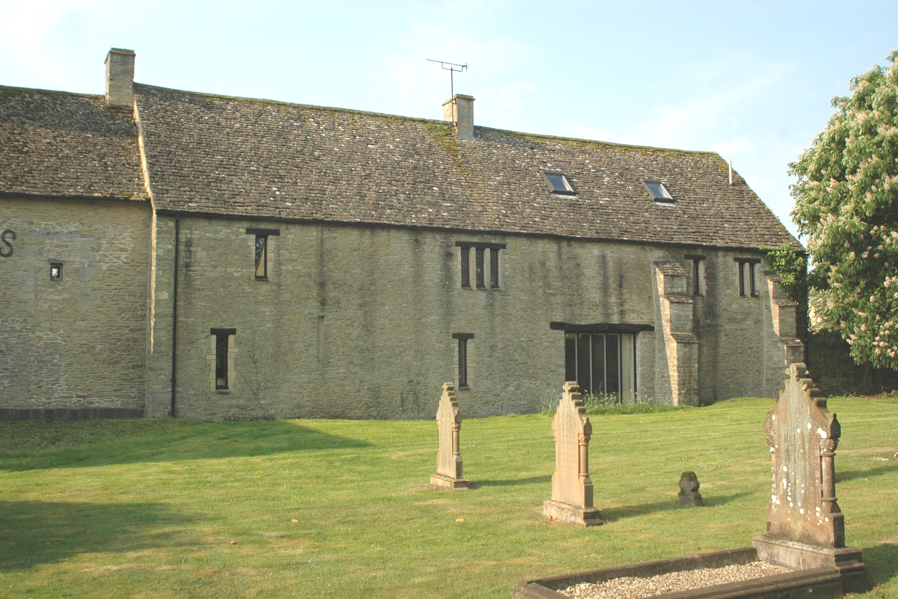 Wilcote Grange Barn, Wilcote, Oxfordshire, viewed from the north.